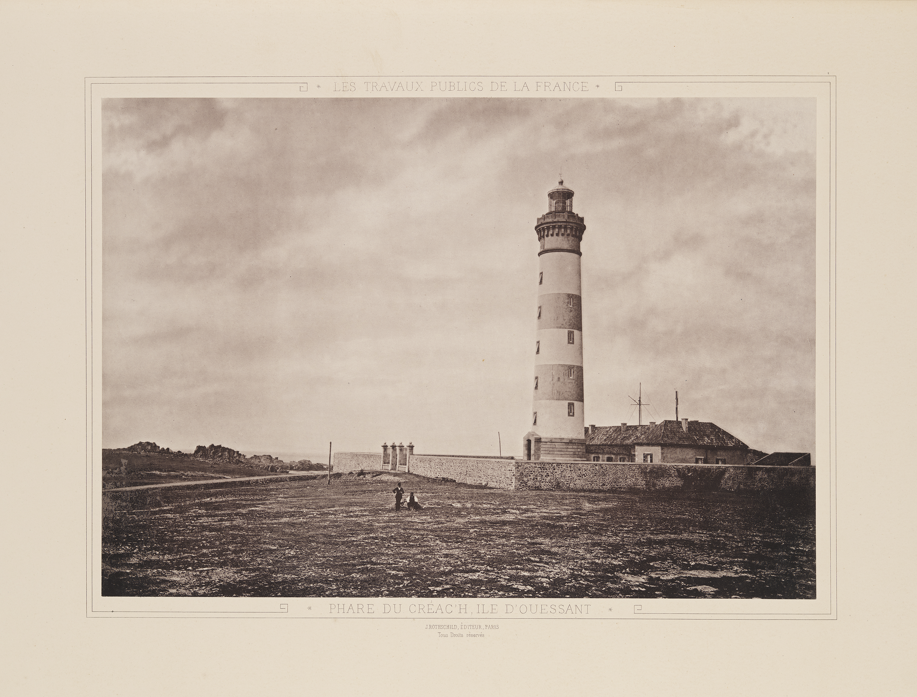 Title: Phare du Creac'h d'Ouessant Alternative Title: Creac'h d'Ouessant LIghthouse Creator: Duclos, Jules Date: 1883 Series: Tome Cinquieme: Phares et Balises Place: Ouessant, Finistere, France Description: The full title of the five-volume set is, Les travaux publics de la France par MM. F. Lucas et V. Fournie - Ed. Collignon - H. de Lagrene - Voisin Bey - E. Allard. Ouvrage publie sous les auspices de Ministere des travaux publics et sous la direction de M. Leonce Reynaud. This photograph is one of 50 plates in Public Works of France, Volume Five: Lighthouses and Beacons. Physical Description: 1 photographic print: collotype; 26 x 35 cm on 40 x 56 cm mount File: vault_folio_2_ta71_a4_1883_5_23_opt.jpg Rights: Please cite Southern Methodist University, Central University Libraries, DeGolyer Library when using this image file. A high-quality version of this file may be obtained for a fee by contacting . For more information, see